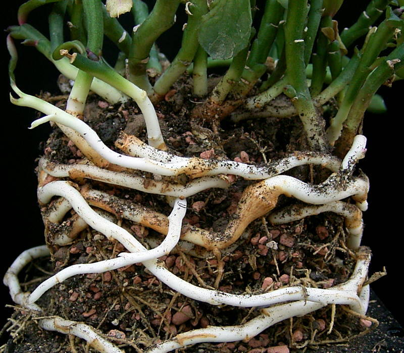 Euphorbia rhizophora